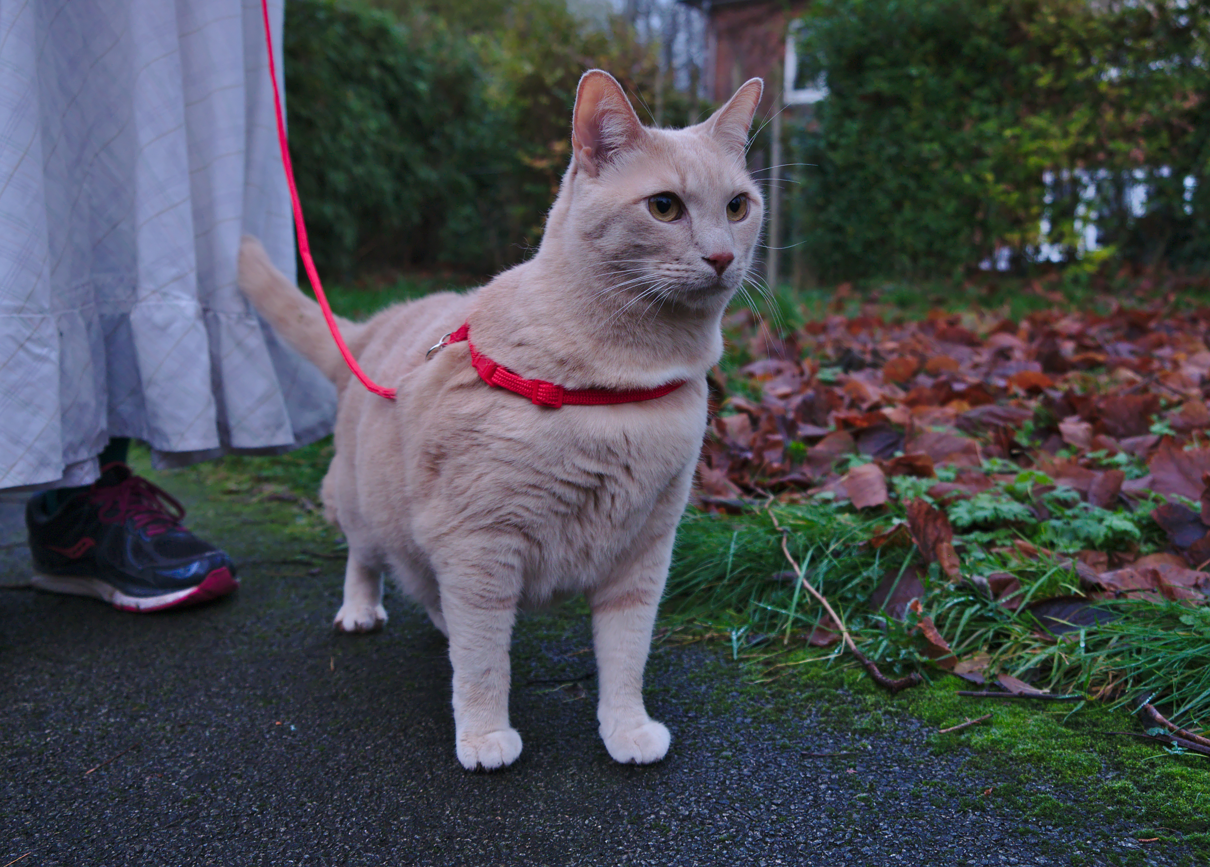 Larry the cat trying out his harness for the first time in Auderghem, Belgium (facing)